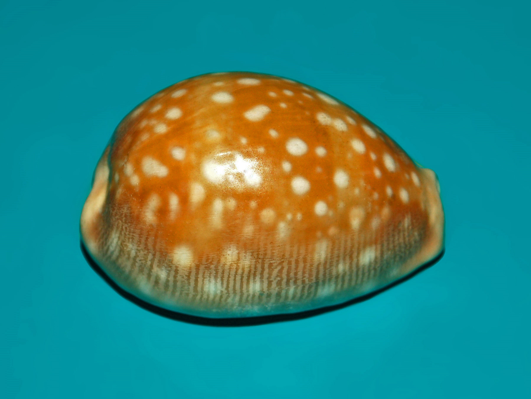 Lyncina vitellus